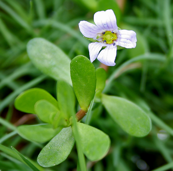 Bacopa monnieri (syn. Bramia monnieri, Gratiola monnieria, Herpestes monnieria, Herpestis fauriei, H. monniera, H. monnieria, Lysimachia monnieri, Moniera euneifolia)- Coastal Waterhyssop, Thyme-leafed gratiola, Water hyssop, Water Hyssop, Indian pennywort, Brahmi ब्राह्मी (Hindi), நீர்ப்pராமி Nirbrahmi (Tamil), Jalanevari (Gujarati)- in Hyderabad, India.